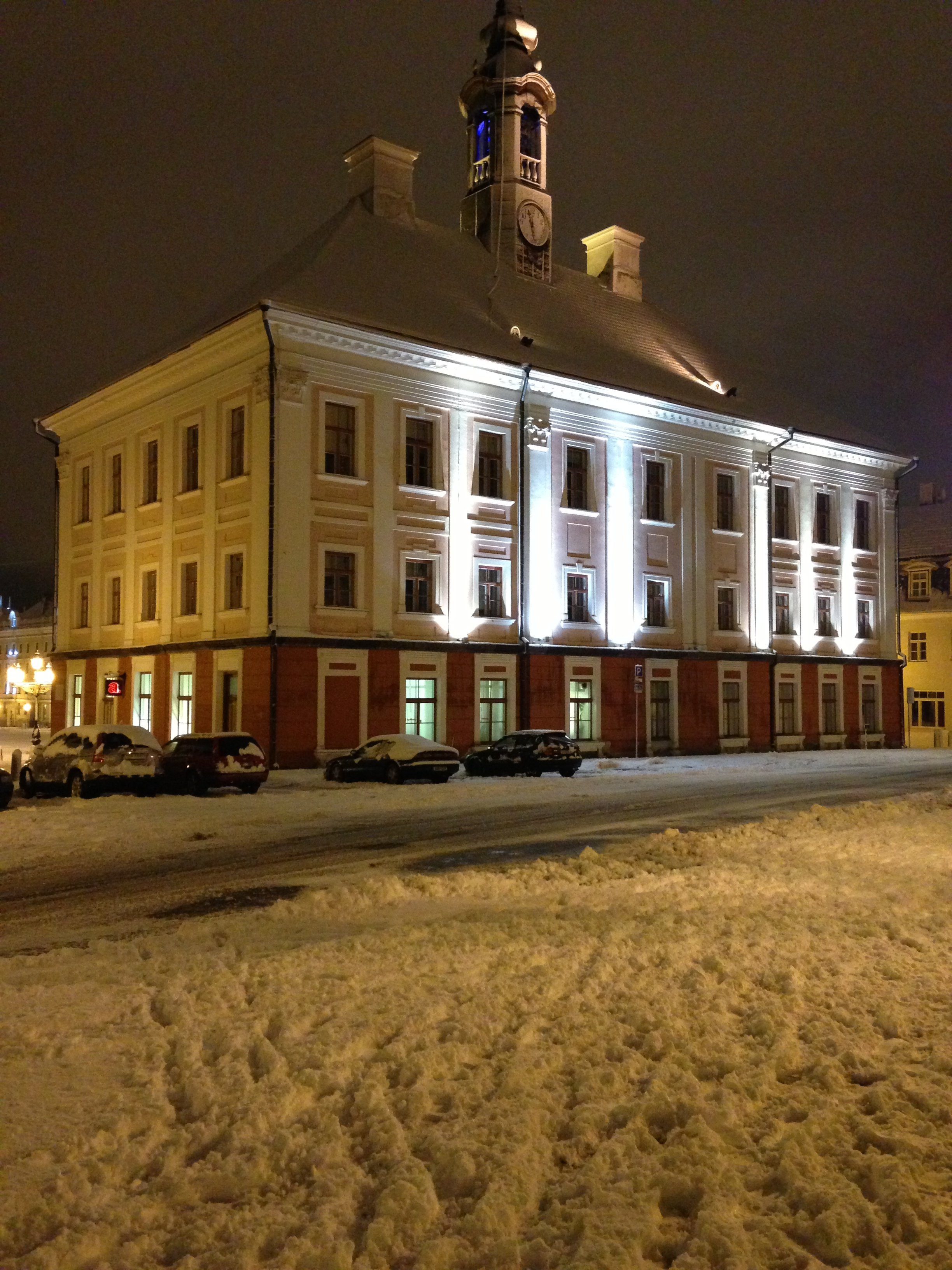 Tartu Town Hall at night after a snowfall.